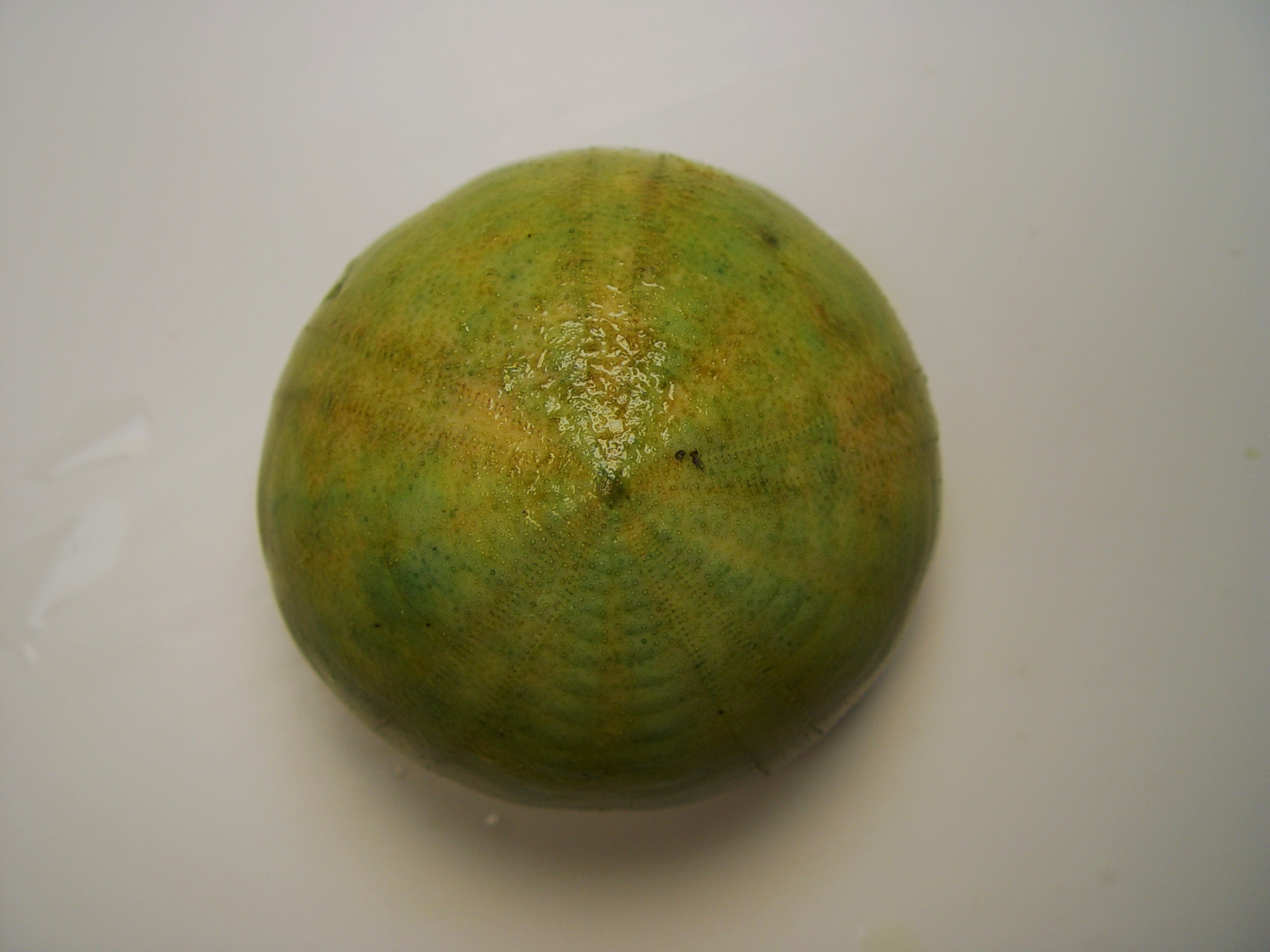 An echinoderm (Conolampas sigsbei ). Gulf of Mexico.